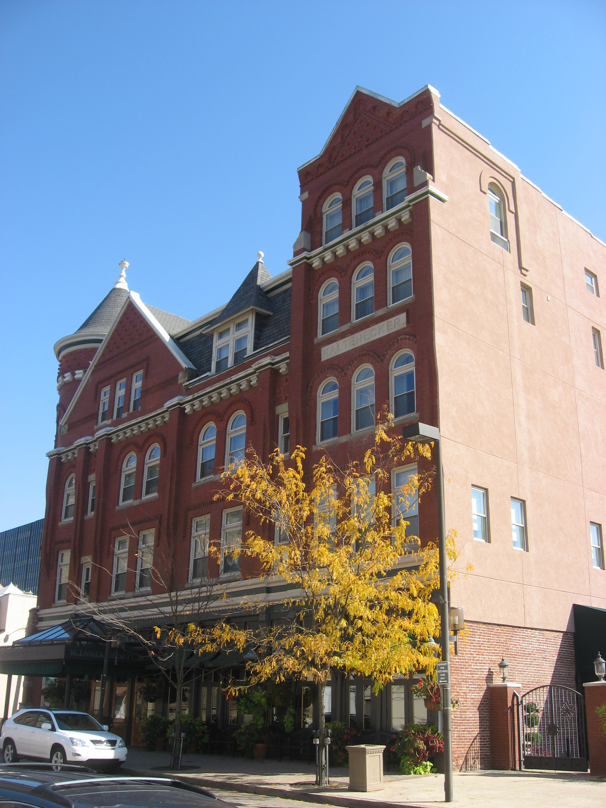 Front and southern side of the Blennerhassett Hotel, located at 316 Market Street at the West Virginia Route 14 intersection in Parkersburg, West Virginia, United States. Built in 1889, it is listed on the National Register of Historic Places.